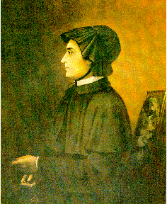 Saint Elizabeth Ann Seton (1774-1821) aka Mother Seton, the first native born American to be canonized by the Roman Catholic Church